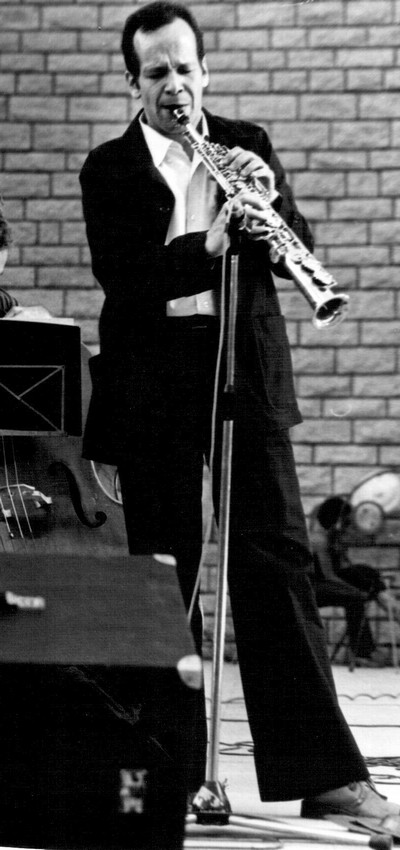 American jazz saxophonist and composer Steve Lacy in France